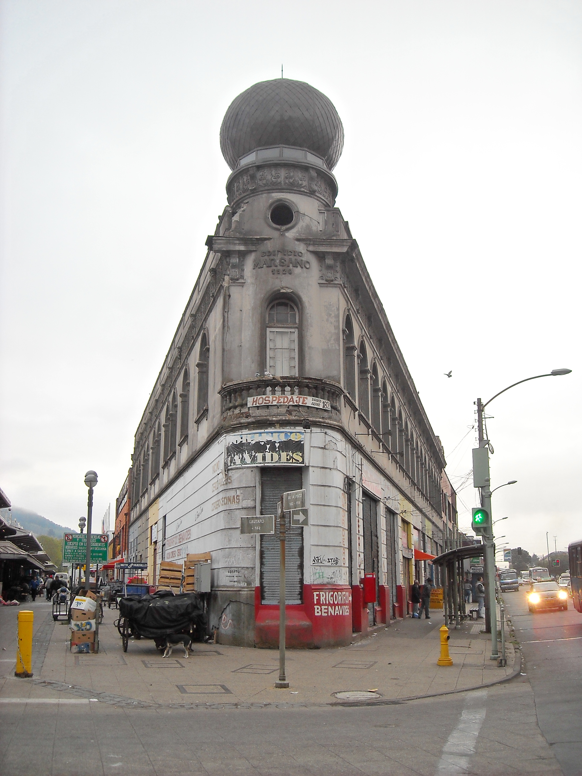 Edificio Marsano de 1923 - Frente